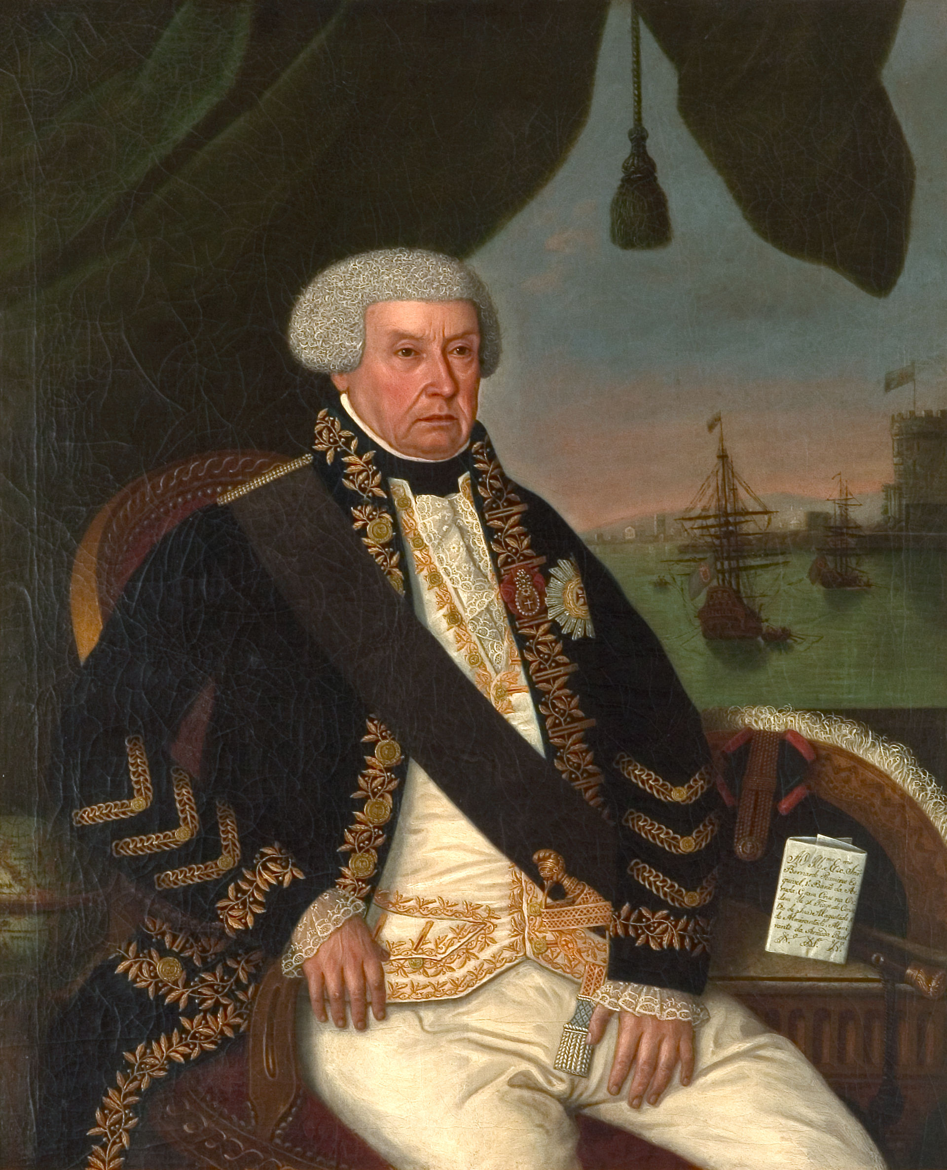 Portrait of Bernardo Ramires Esquível (1723-1812), painted in the late 18th-century by commission of the Marquis of Pombal (currently in the Central Library of the Navy, in Portugal). To Esquível's left, a piece of paper reads "His Excellency, Bernardo Ramires Esquível, 1st Baron of Arruda and Admiral of the Navy". Esquível is depicted sitting on the chair he always had carried aboard his ships.